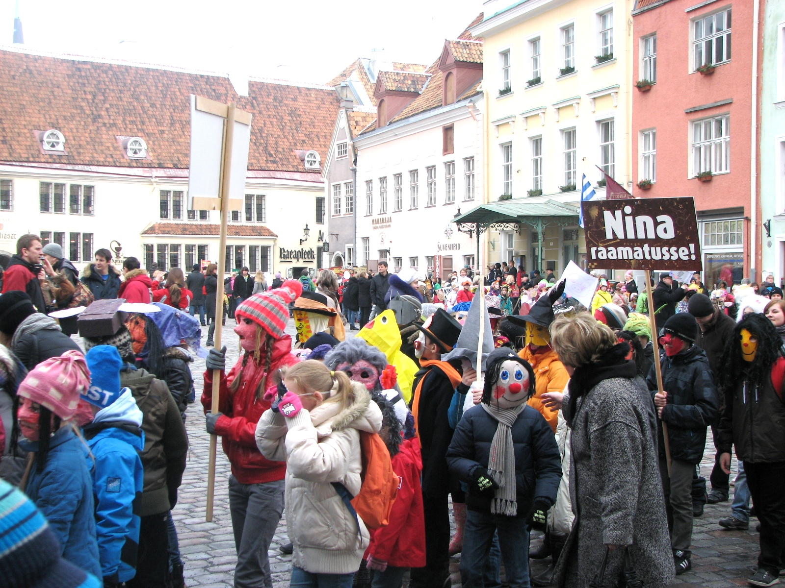 Procession of masks on the International Children's Book Day in Tallinn